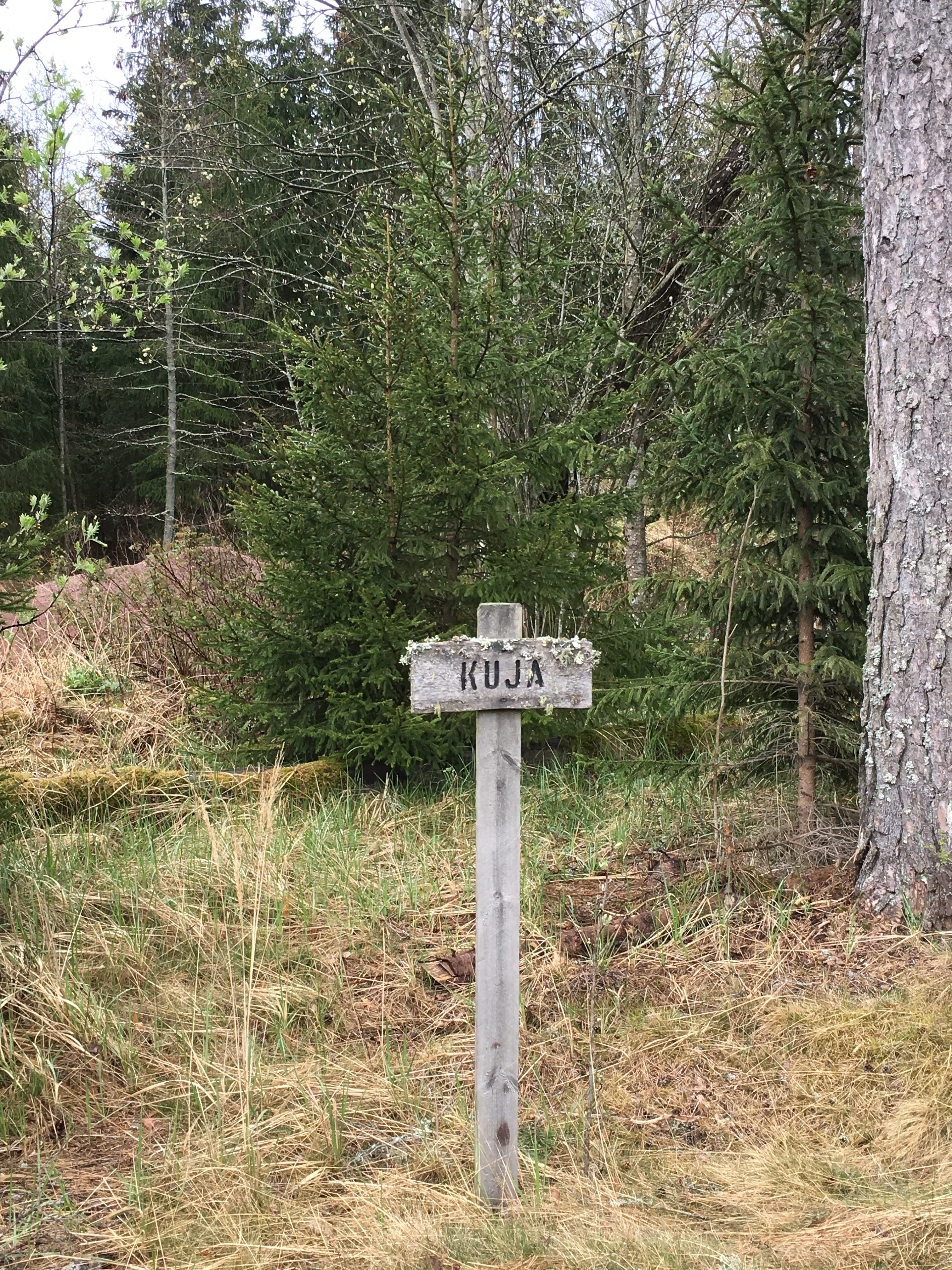 There are no ruins left from the home of Lars I Kuja, but a sign is showing the location in the Gustaf Fröding poem.